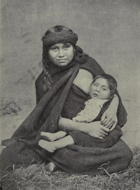 Araucanian Woman and child (circa 1909)